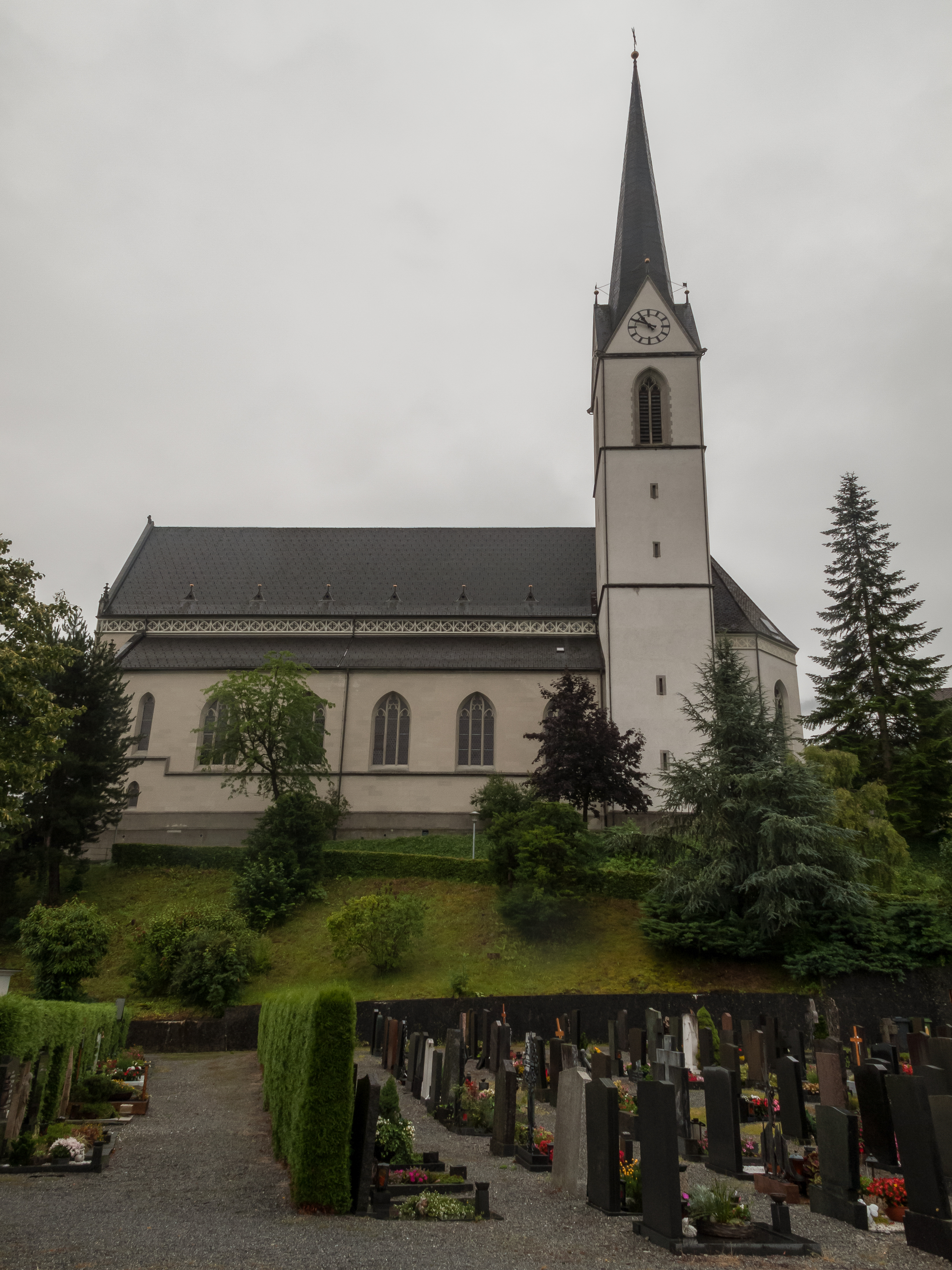 Frastanz, church: katholische Pfarrkirche heilige Sulpitius